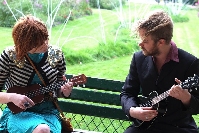 Tom Dickins and Jen Kingwell play at a Twitnic